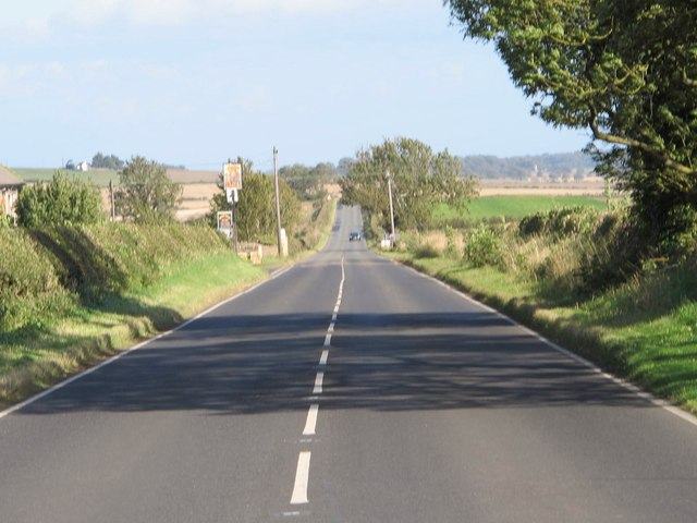 (The line of) Hadrian's Wall by the site of Milecastle 18, Data from Geograph: Description: The Wall itself lies under the Military Road (B6318). ICBM: 55.009685154362, -1.9236661389707 Location: 3 km from Harlow Hill, Northumberland, Great Britain.